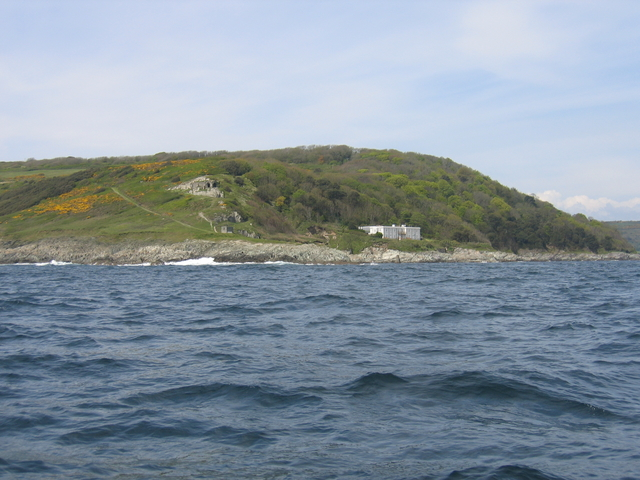 Penlee Point. The headland at Penlee Point seen from a passing yacht.